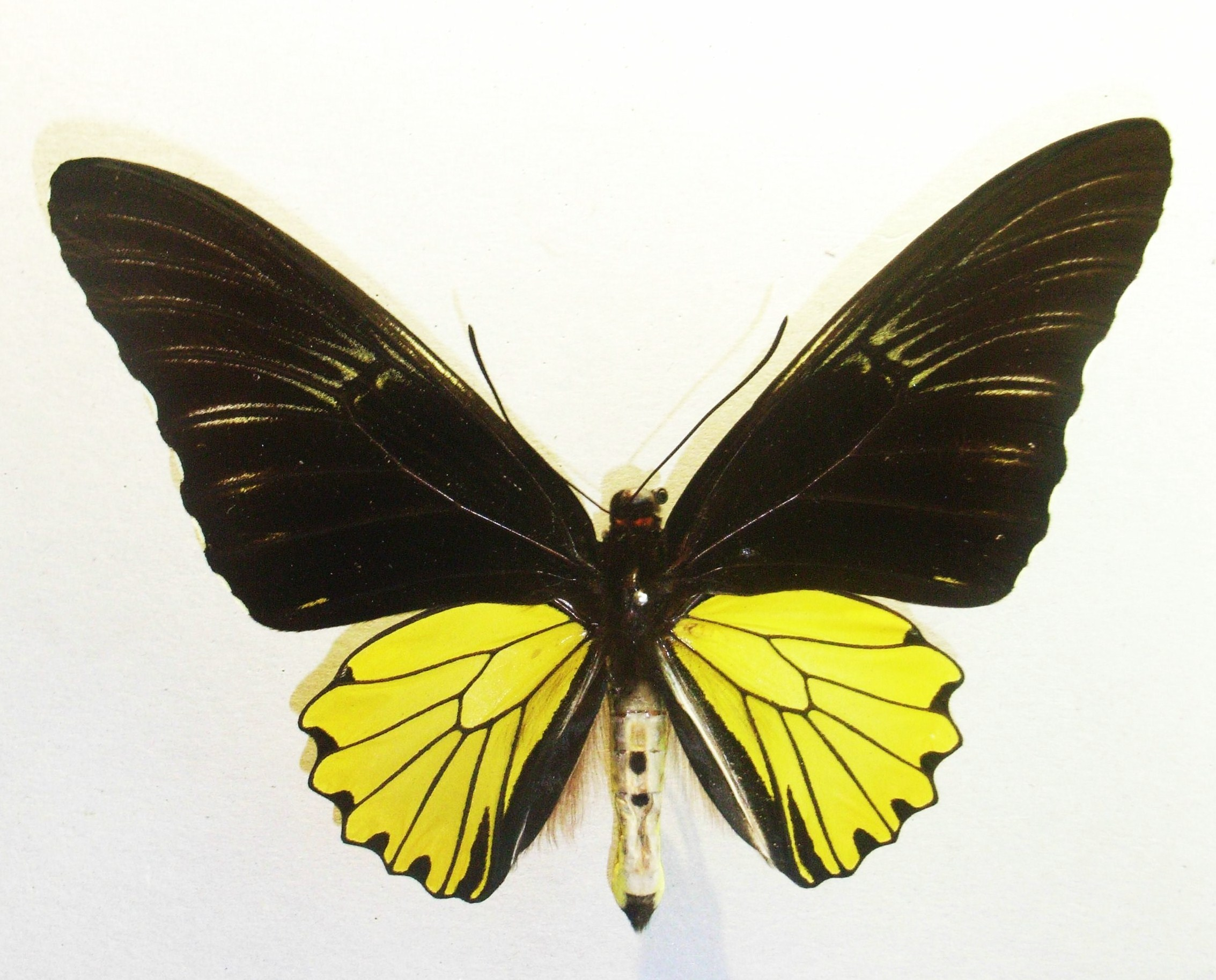 Troides cuneifera male:Papiliionini:Papilionidae